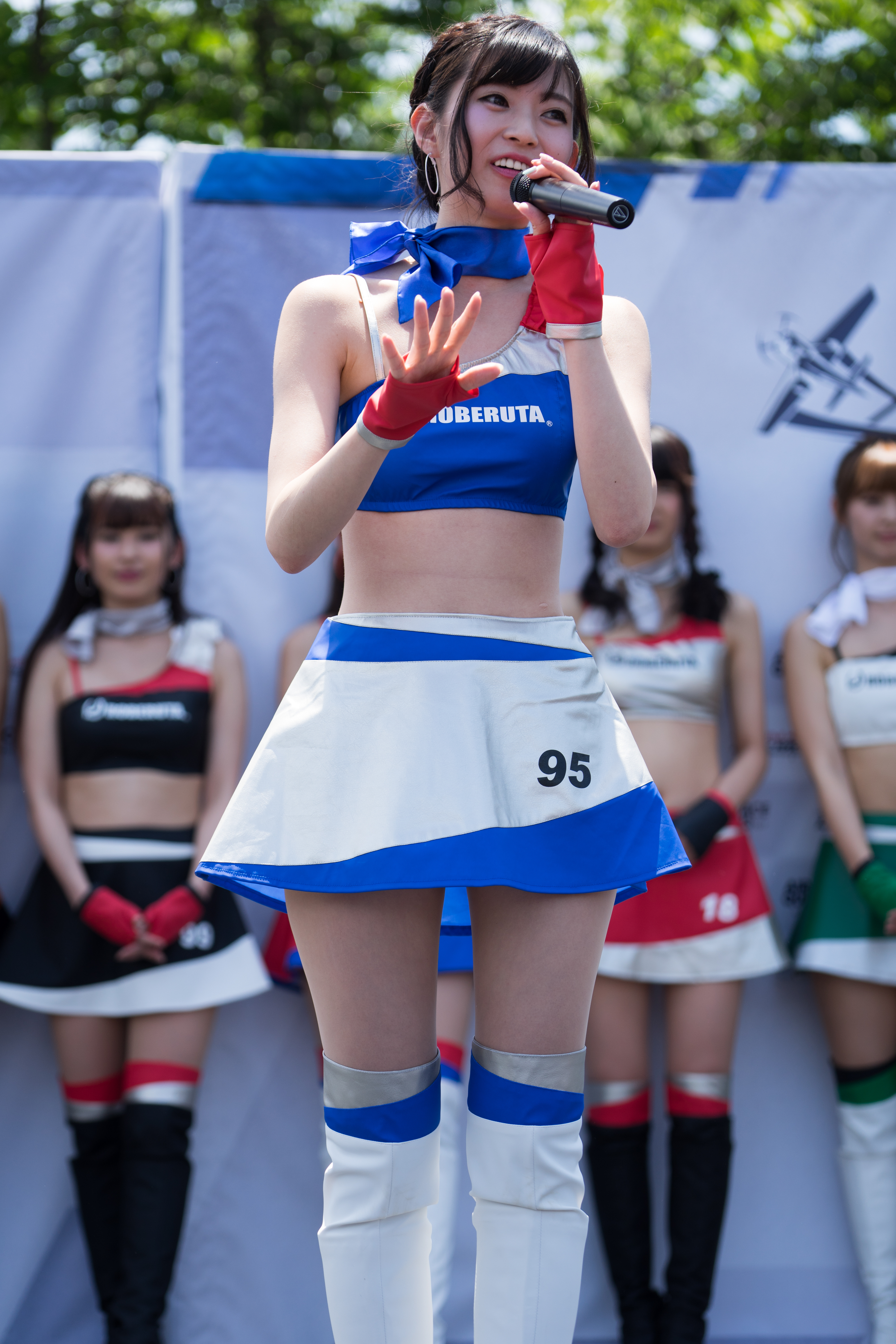 RED BULL AIR RACE CHIBA 2017-273.jpg